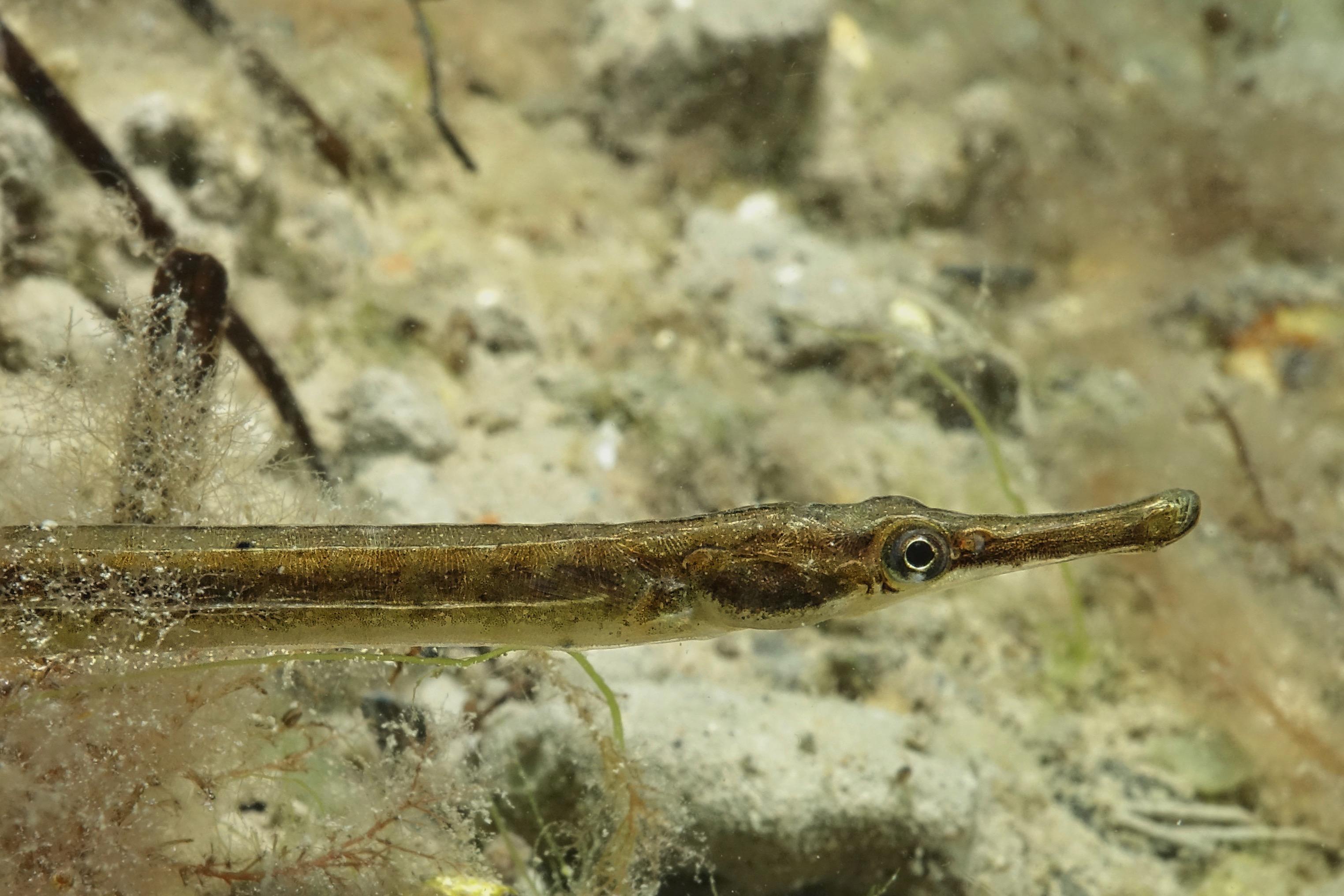 RX100M2 with INON UCL-100 and signle INON S-2000 strobe